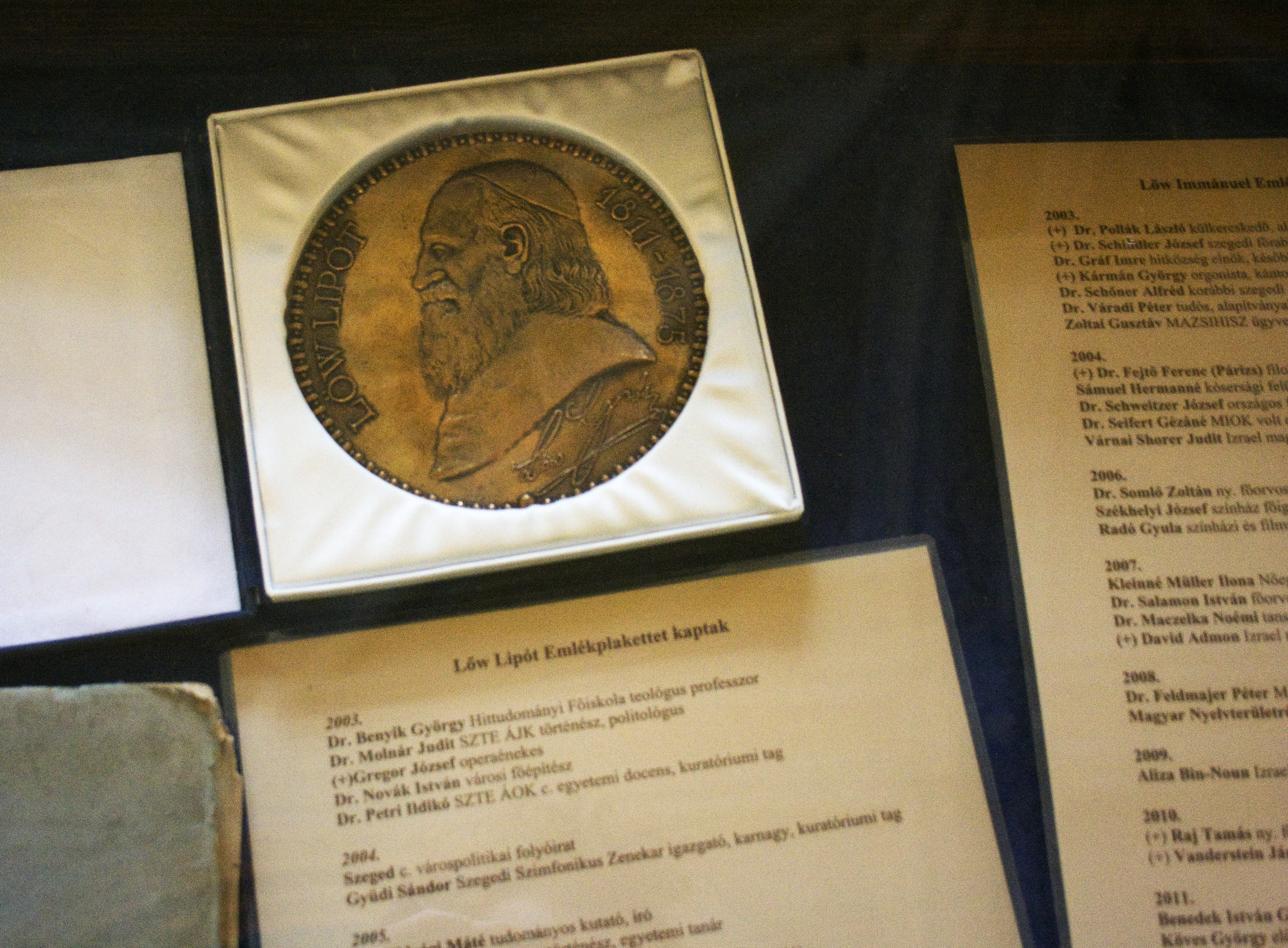 Commemorative Plaquette Leopold Löw - and detail the roster who were plaque.